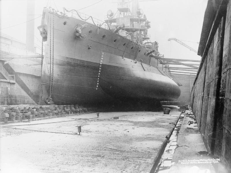 IWM caption : "The hull of the monitor HMS GLATTON, in dry dock, showing the bulge, and paravane chains at the bow."